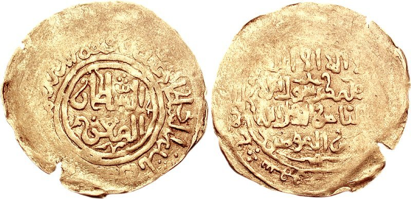 Coin of Taj al-Din Yildiz, a semi-independent Turkish ruler of Ghazna. The name of the former Ghurid Sultan Mu'izz al-Din Muhammad is shown in the central circle of the coin.